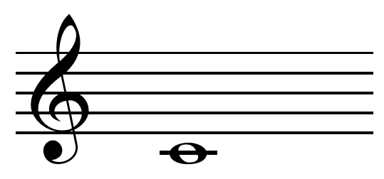 Middle C.